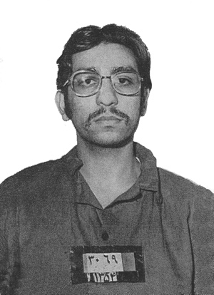 Mugshot of Vahid Afrakhteh (1950–1975), member of the People's Mujahedin of Iran, convicted of killing US Army Lieutenant colonel Lewis L. Hawkins